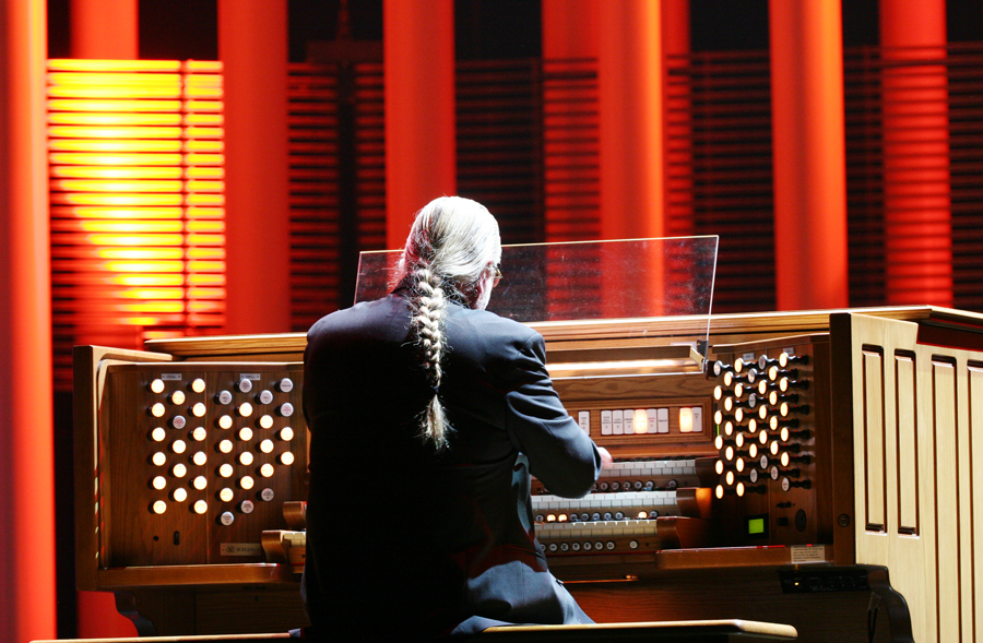 Nobel Peace prize Concert 2008, Oslo Spektrum, Iver Kleive